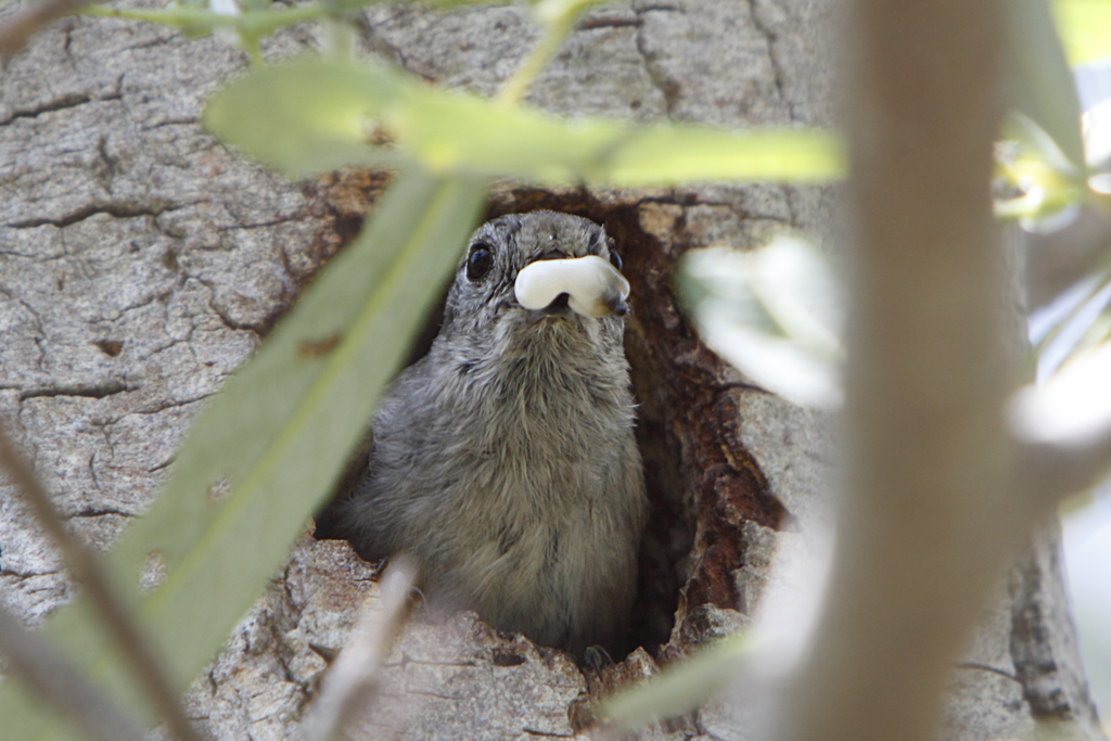 An Oak Titmouse in San Luis Obispo, California, USA. It is removing a faecal sac made by one of the chicks to keep the nest clean.